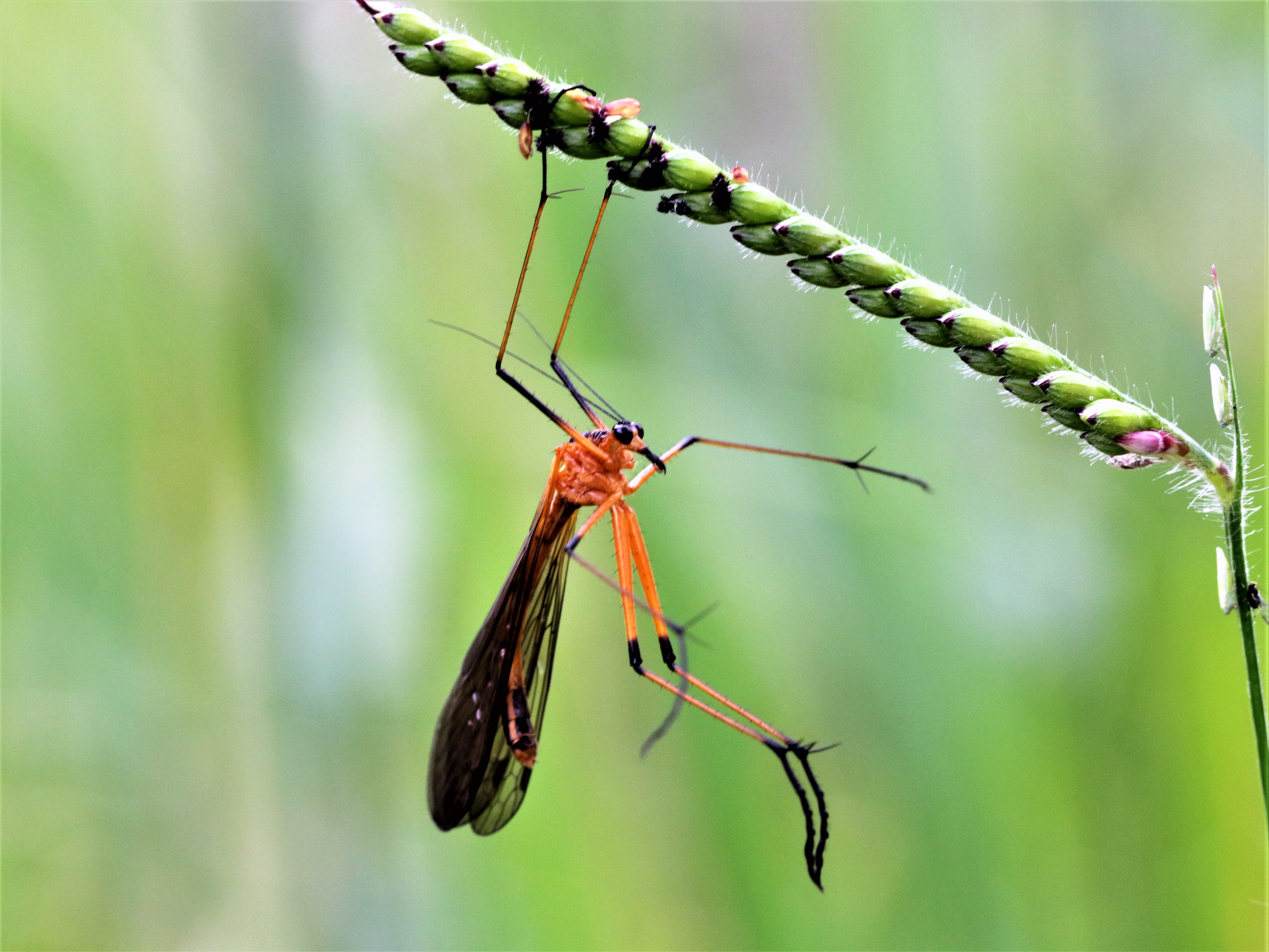 Hangingfly, scorpionfly (Harpobittacus septentrionis) on grass seed at Dinden National Park, north Queensland, Australia